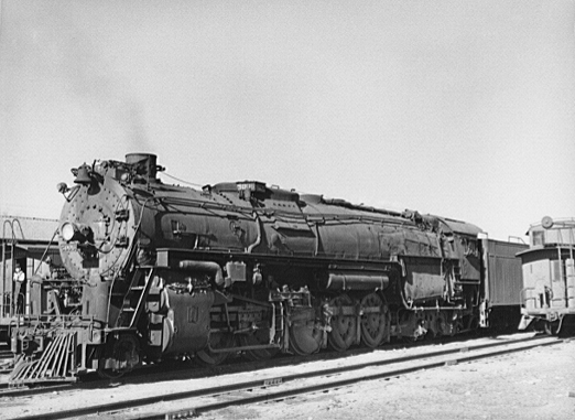 Vaughn, New Mexico. One of the 5000 Class Atchison, Topeka and Santa Fe Railway freight locomotives about to leave on the run to Clovis, New Mexico. CALL NUMBER: LC-USW3- 020409-D [P&P] 1943 Mar. Note: The subject of this image is a member of the Atchison Topeka and Santa Fe 5001 class Texas type locomotive (Not 5000 class as stated in the photo caption).